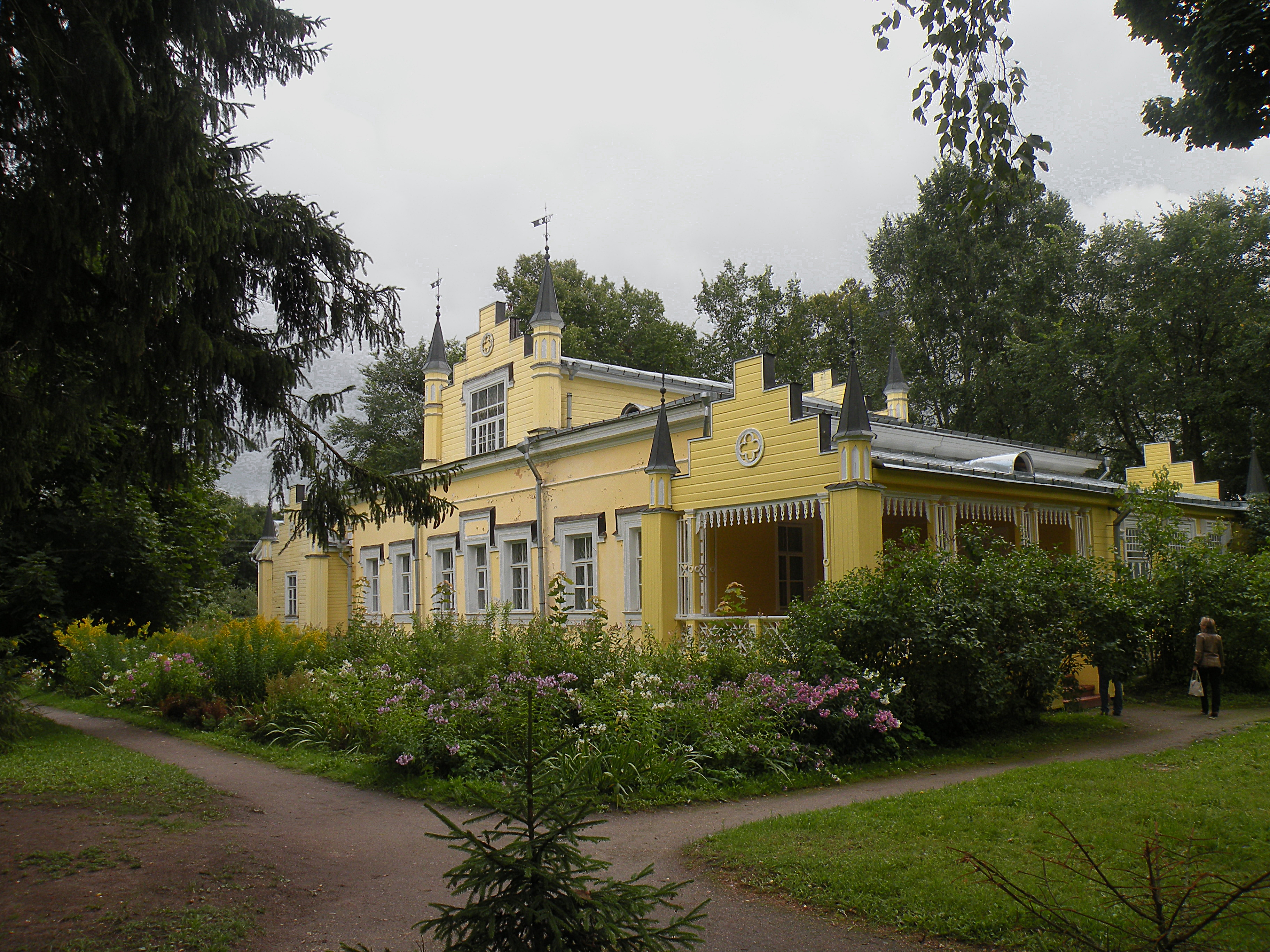 Roerichs Mansion in Isvara. Leningrads oblast